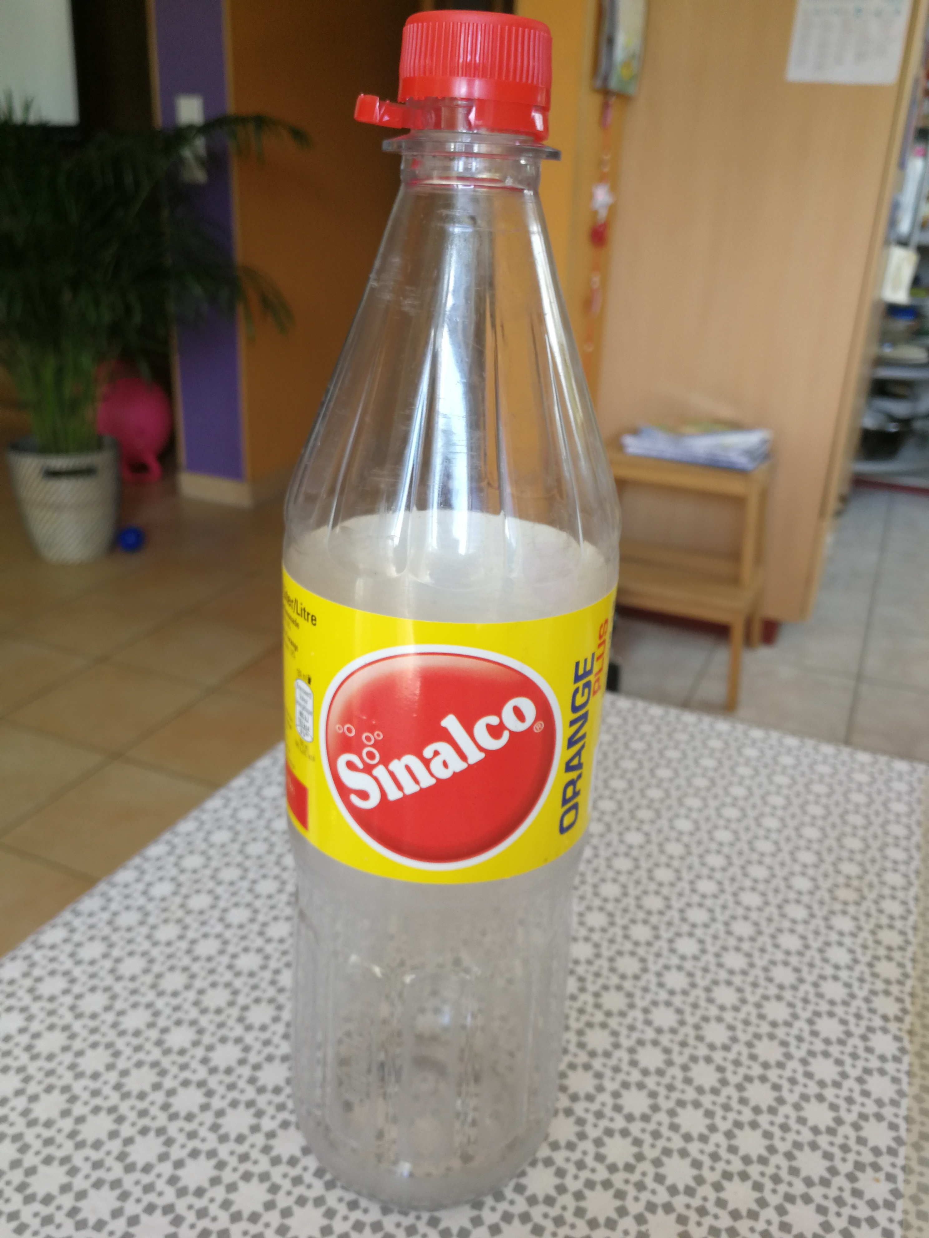 Empty bottle of Sinalco Orange